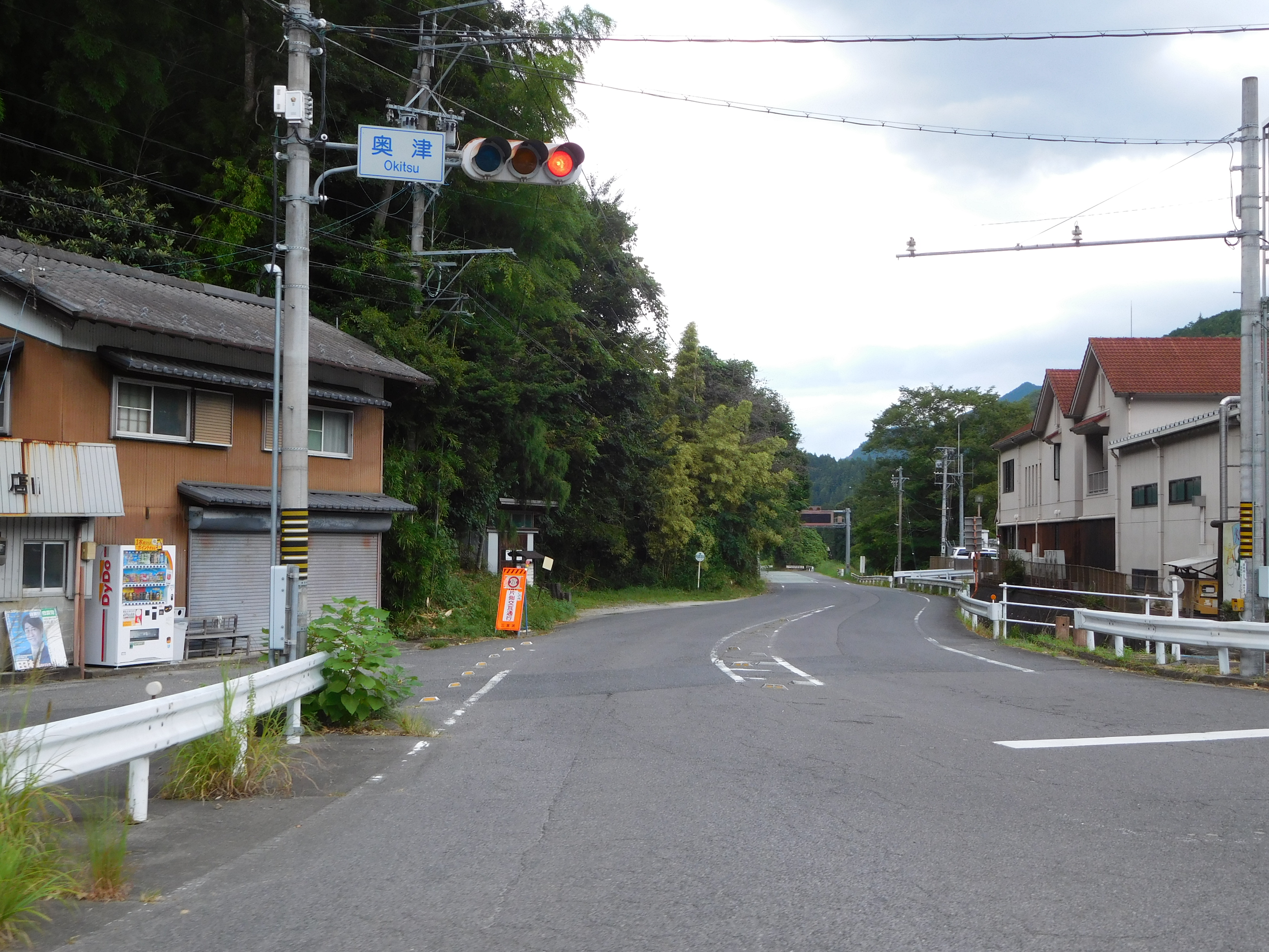 This is Okitsu Intersection in Tsu, Mie, Japan.